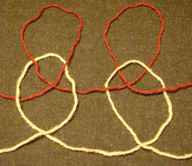 Large-scale illustration of plaited stitches in knitting; each stitch is given one twist, one clockwise and one counterclockwise. Stitches with more twists are possible, but relatively rare, usually in elongated stitches (e.g., Mary Thomas' book on knitting patterns).